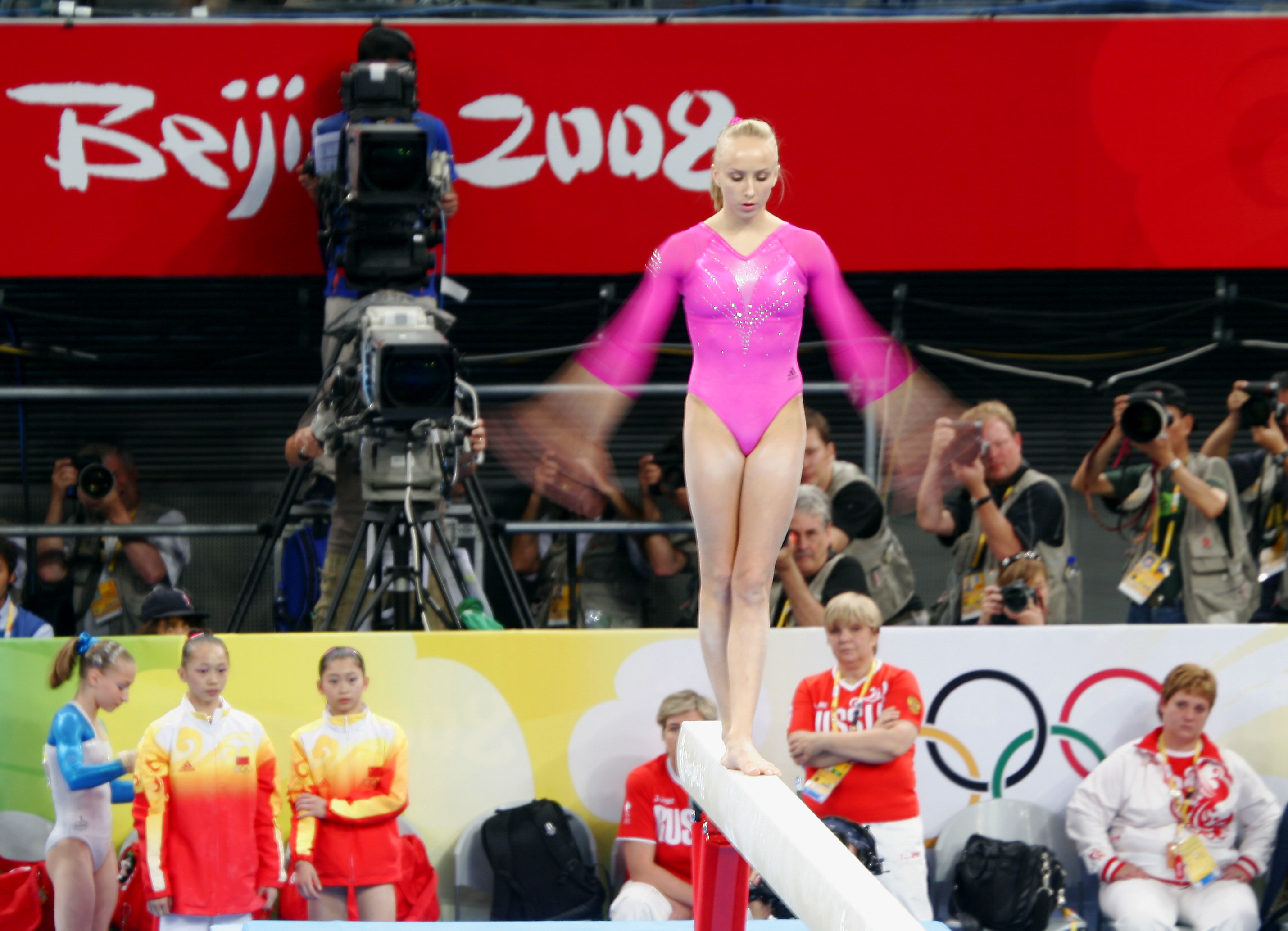 Nastasia Lukin on the Balance Beam.